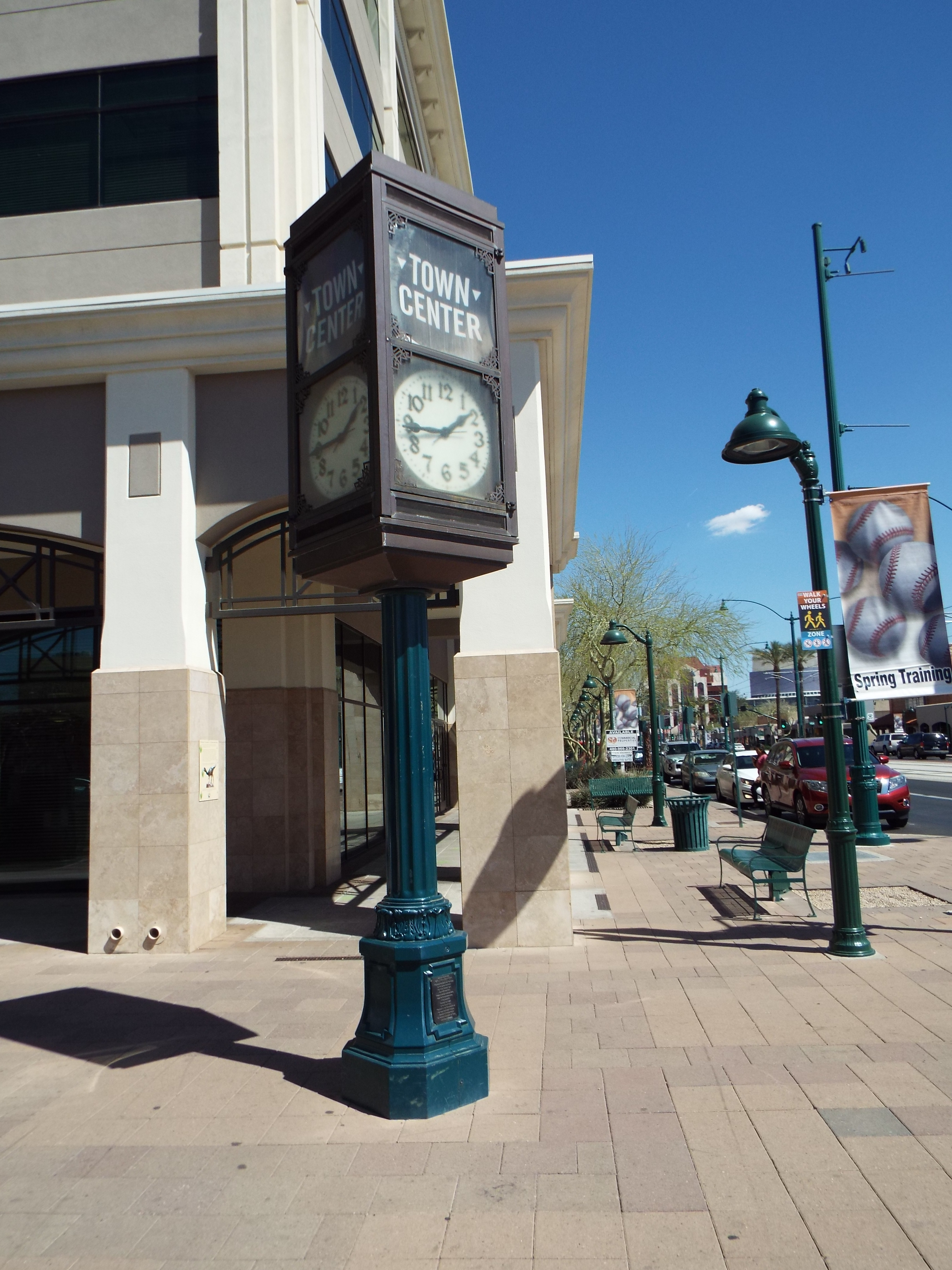 1926 Town Center Clock in Mesa, Arizona located at the NE corner of W. Main and Macdonald. This clock was originally across the street at 61 West Main but was moved to this corner in 1932. The clock mechanism has been updated.